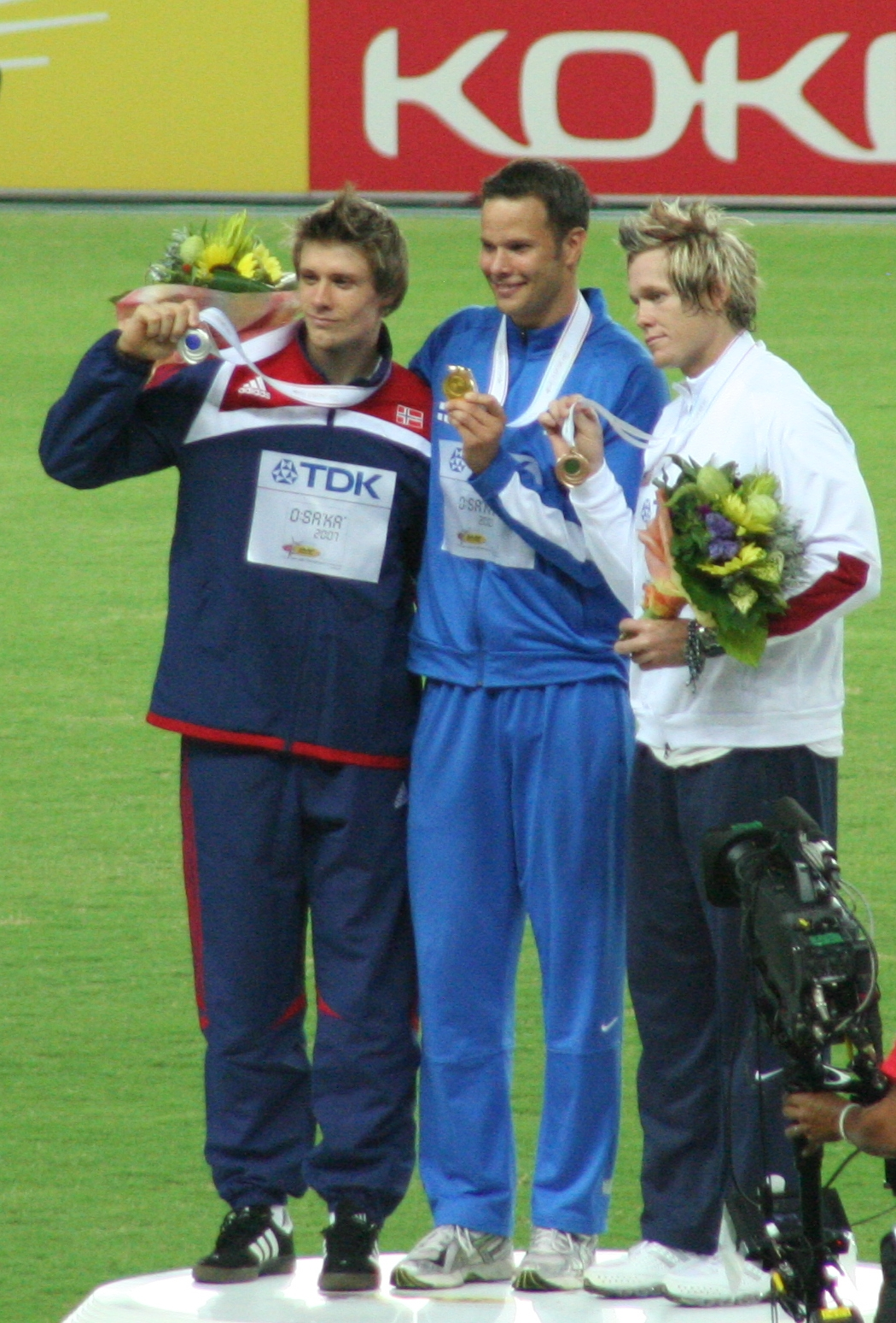 World Athletics Championships 2007 in Osaka - Victory ceremony for the men's javelin competition. Andreas Thorkildsen, Tero Pitkämäki, Breaux Greer